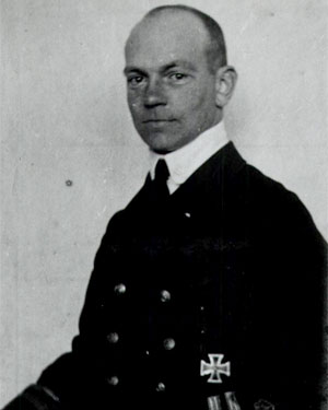 Commander at the airship base in Tønder